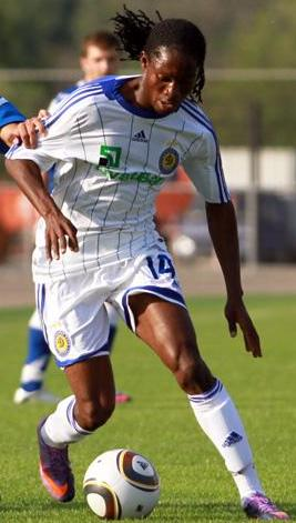 Frank Temile in FC Dynamo Kyiv